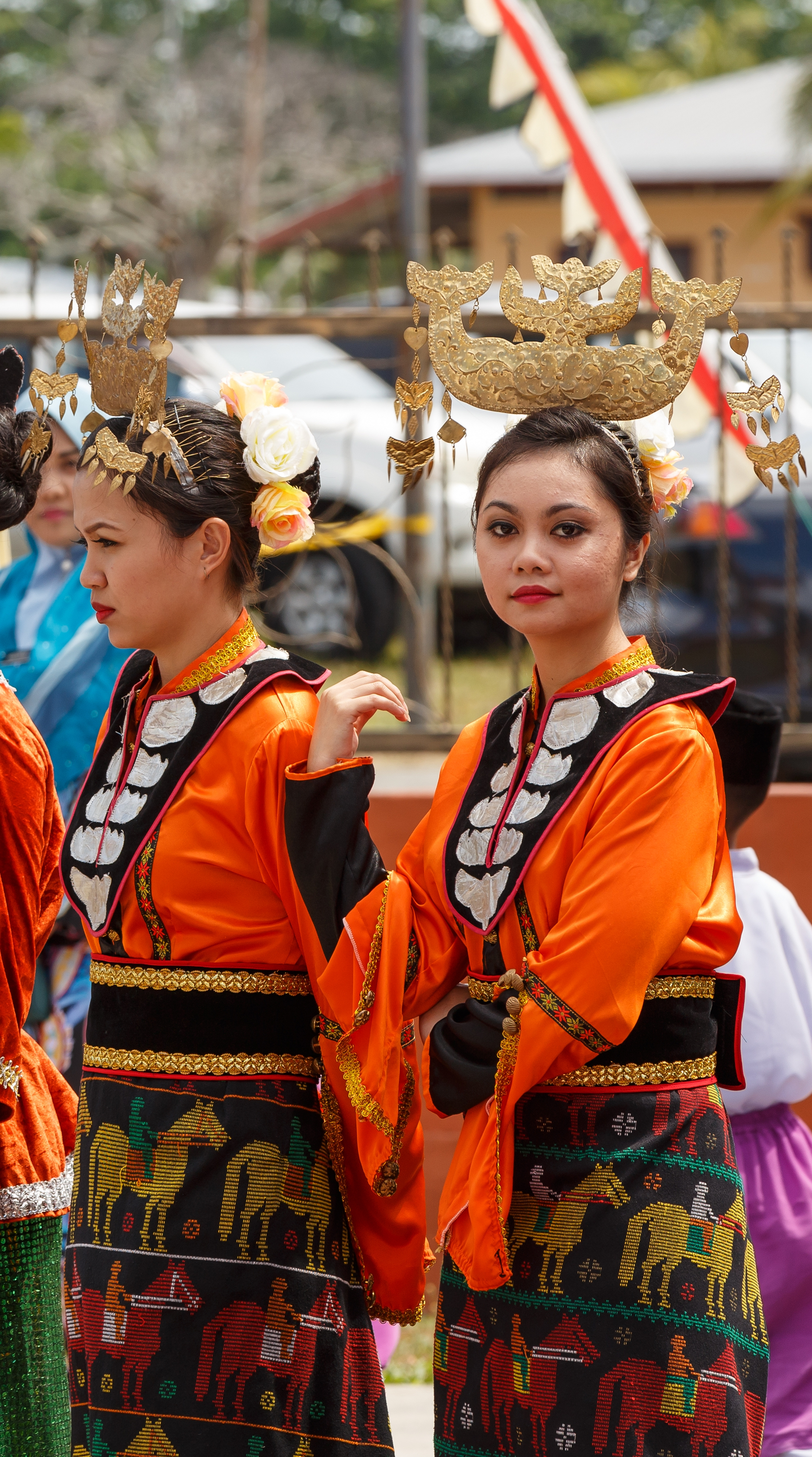 Semporna, Sabah: Bajau women in traditional clothing waiting for the arrival of Head of State. (Photo taken at the opening of Tun Sakaran Museum)